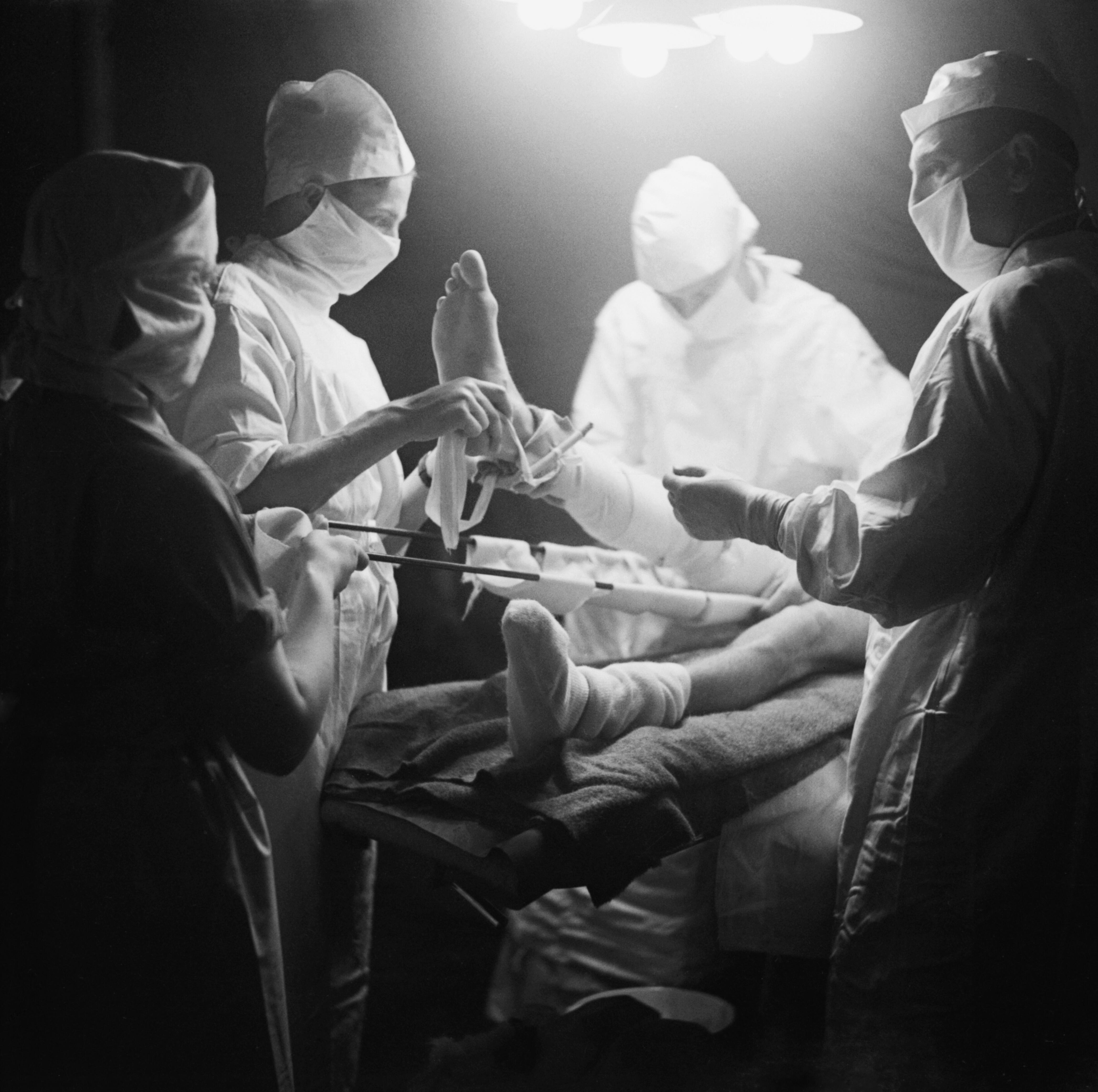 The British Army in Normandy 1944 An operation underway at No 79 General Hospital near Bayeux, 20 June 1944.